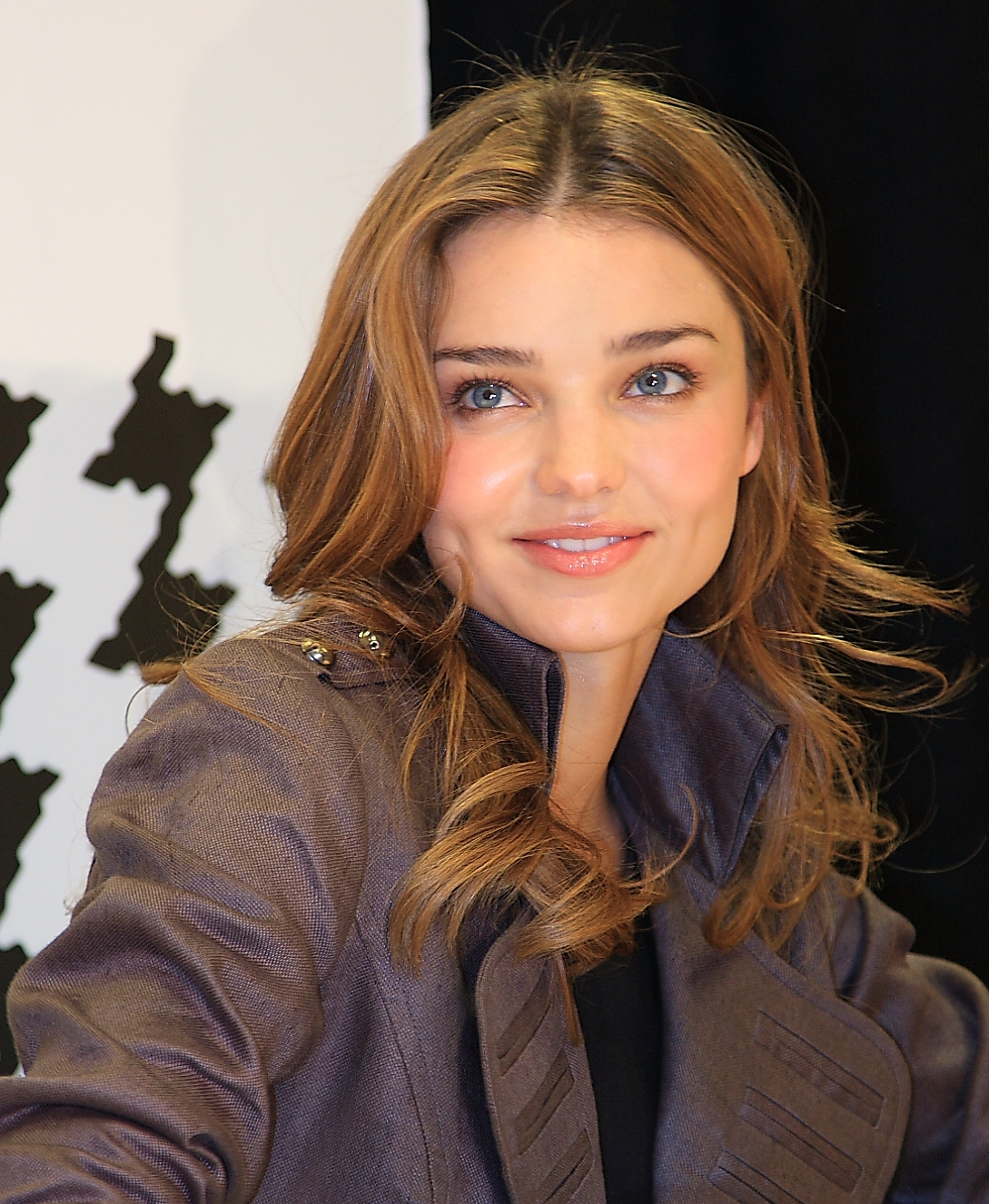 Supermodel Miranda Kerr